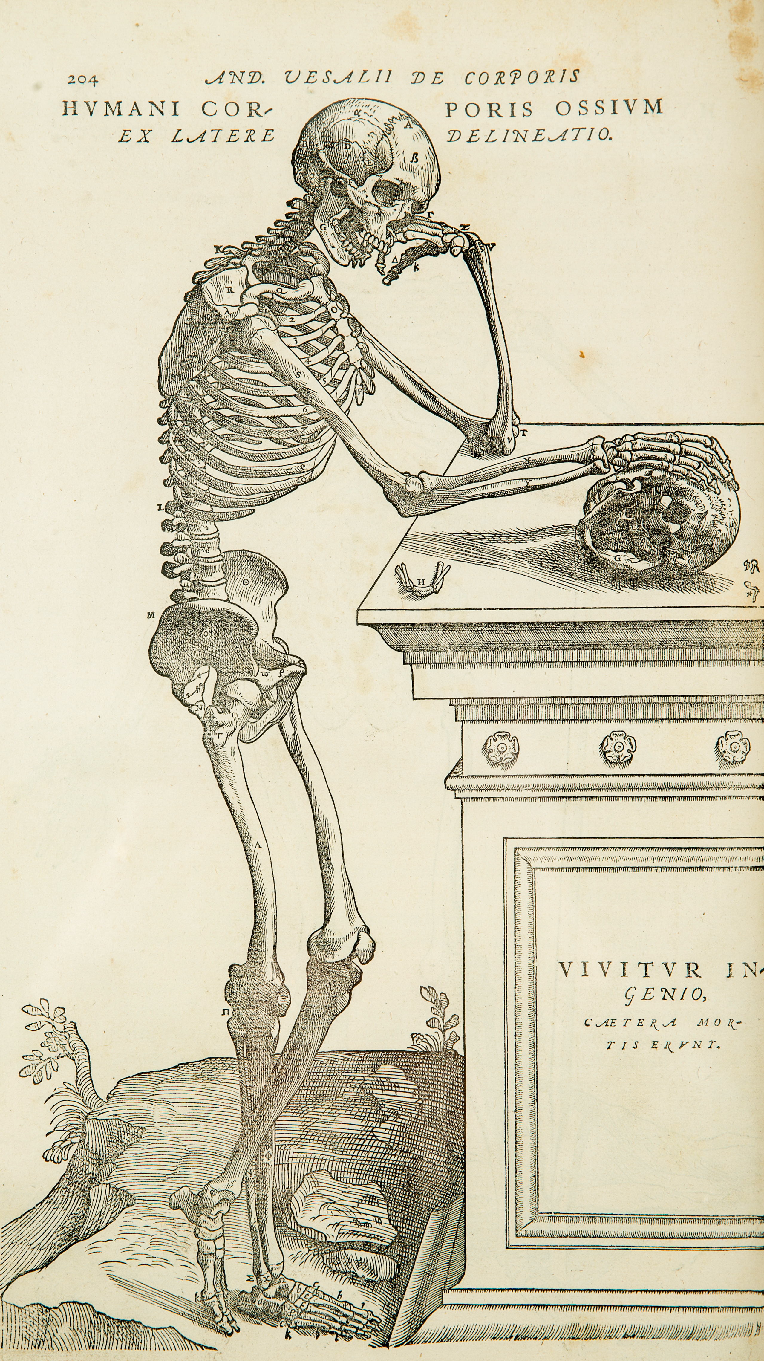 Andreae Vesalii Bruxellensis, scholae medicorum Patauinae professoris De humani corporis fabrica libri septem ... Rare Books Keywords: Anatomy